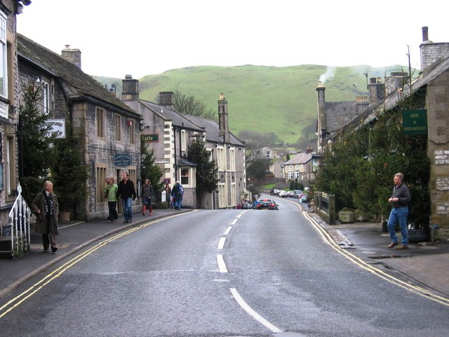 Castleton, Derbyshire Castleton, Derbyshire - main street that runs through the village.